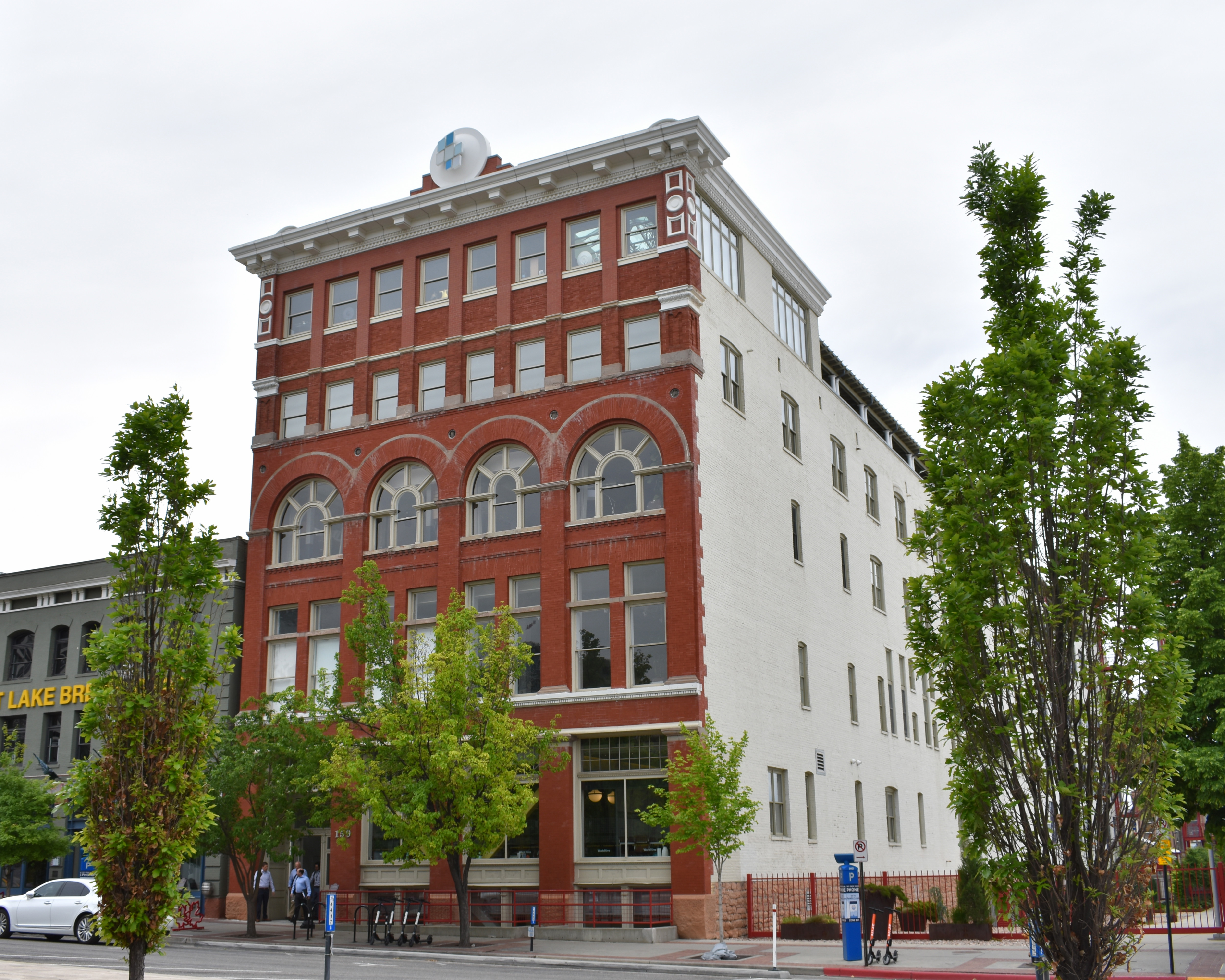 The J.G. McDonald Chocolate Co. Building (1901) in Salt Lake City was designed by John A. Headlund and is listed on the National Register of Historic Places.